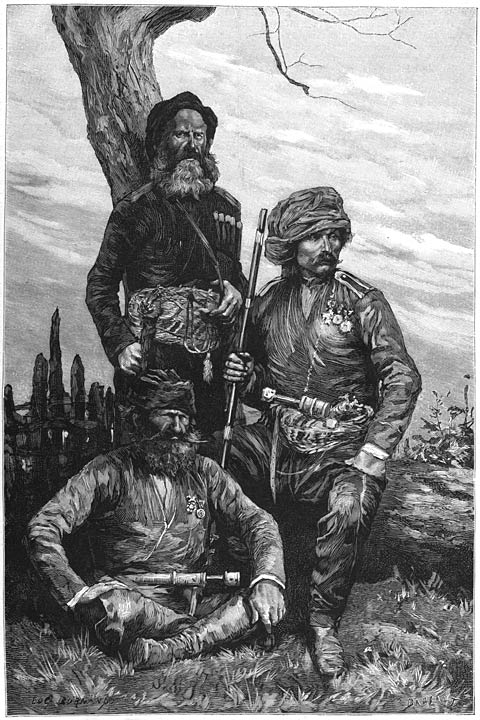 Militiamen from the province of Guria, Georgia